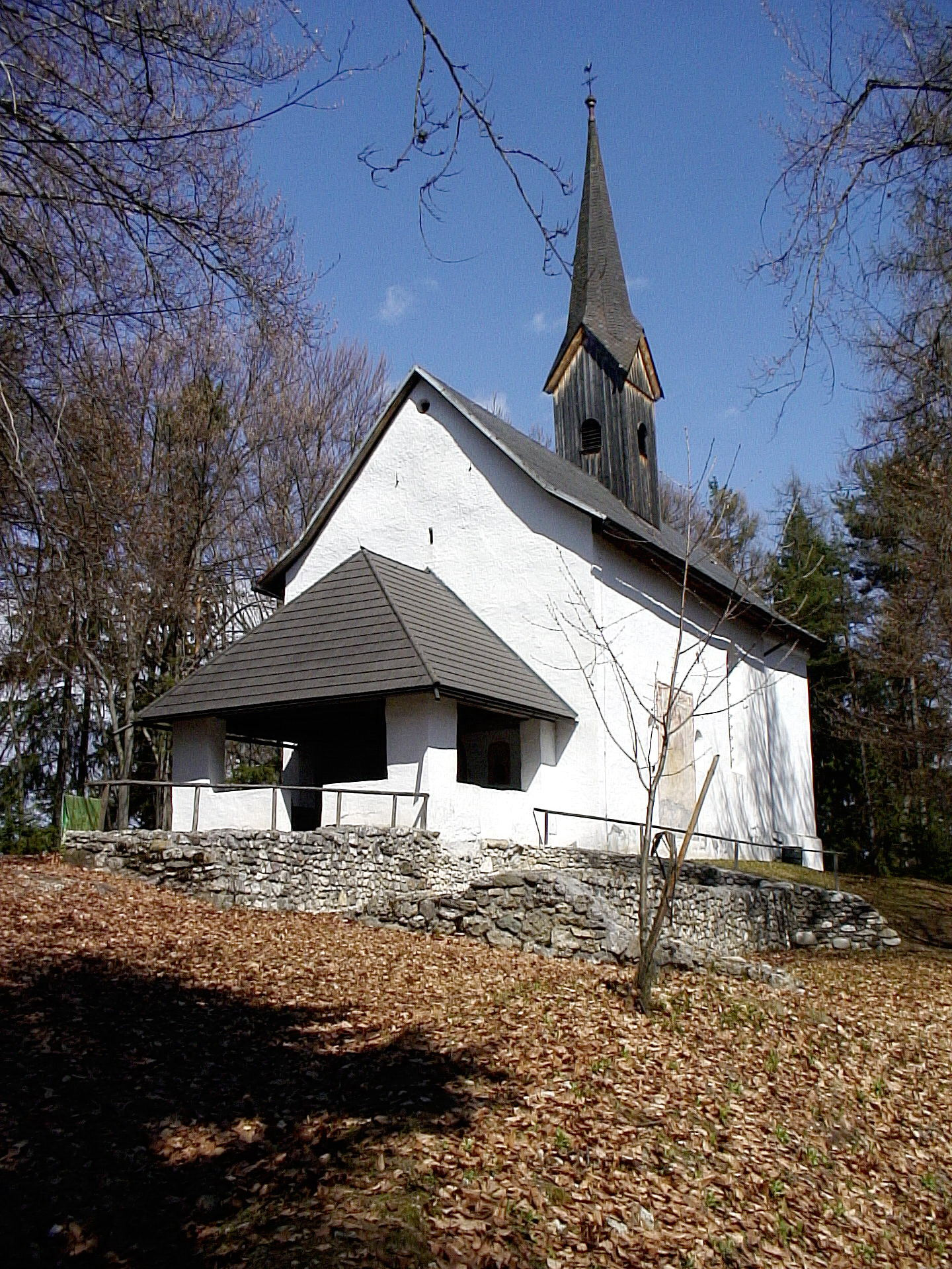 Church on top of Kathreinkogel, Schiefling on the Lake Woerth, district Klagenfurt-Land, Carinthia, Austria